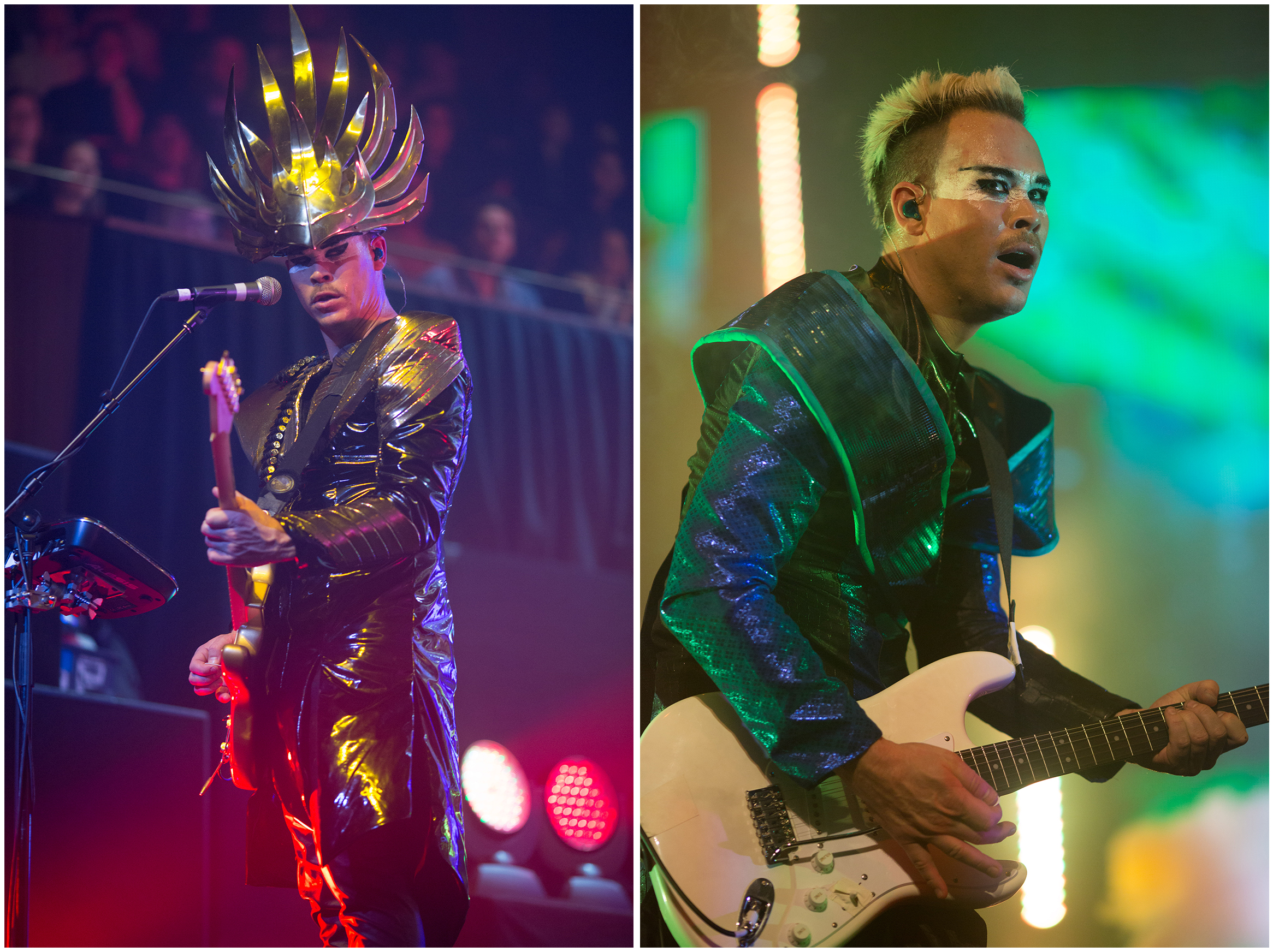 Empire of the Sun for presentation at the Sydney Opera House on May 31, 2013.